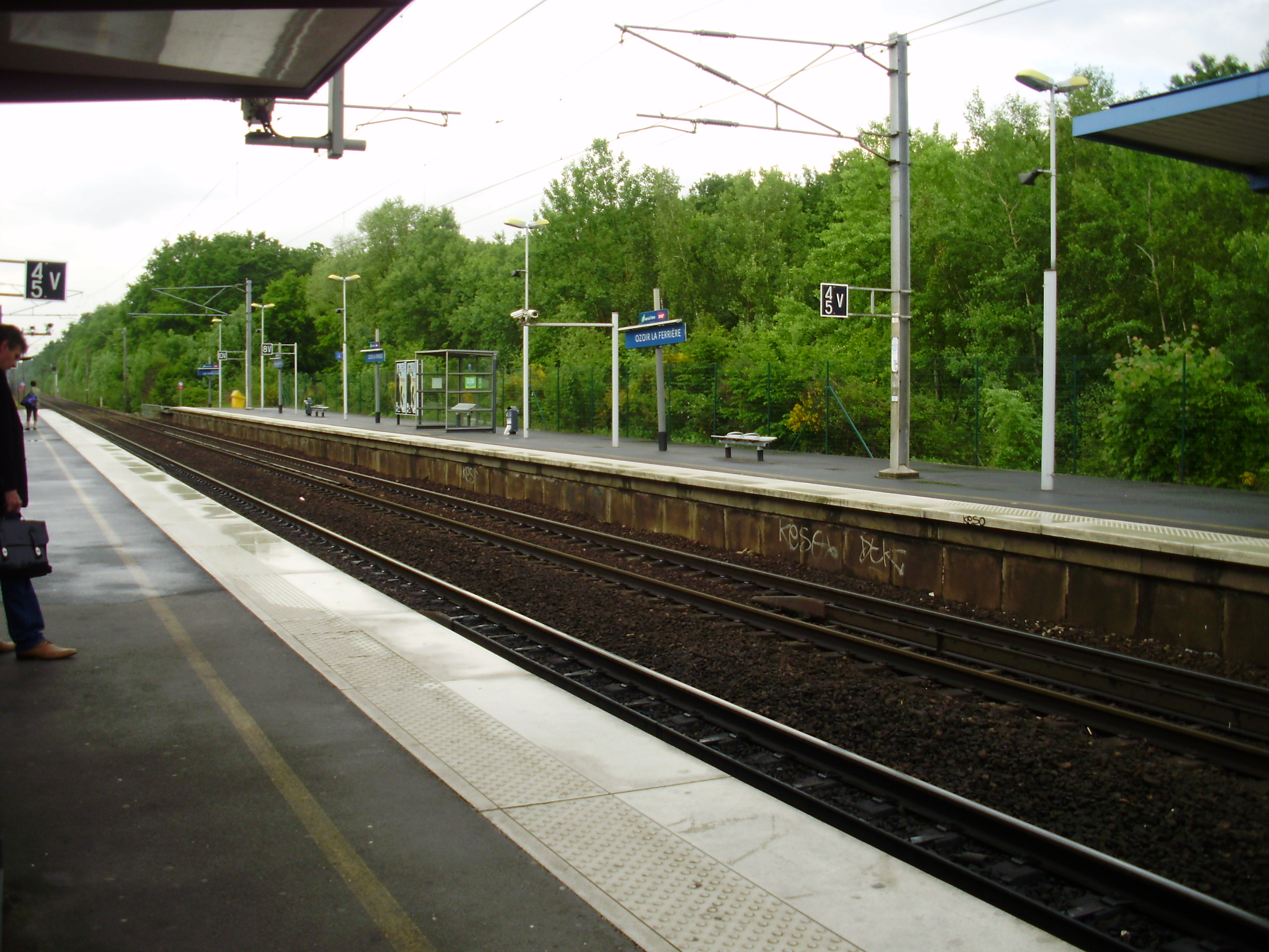 Ozoir-la-Ferrière station, Seine-et-Marne, France (view towards Paris - left platform)